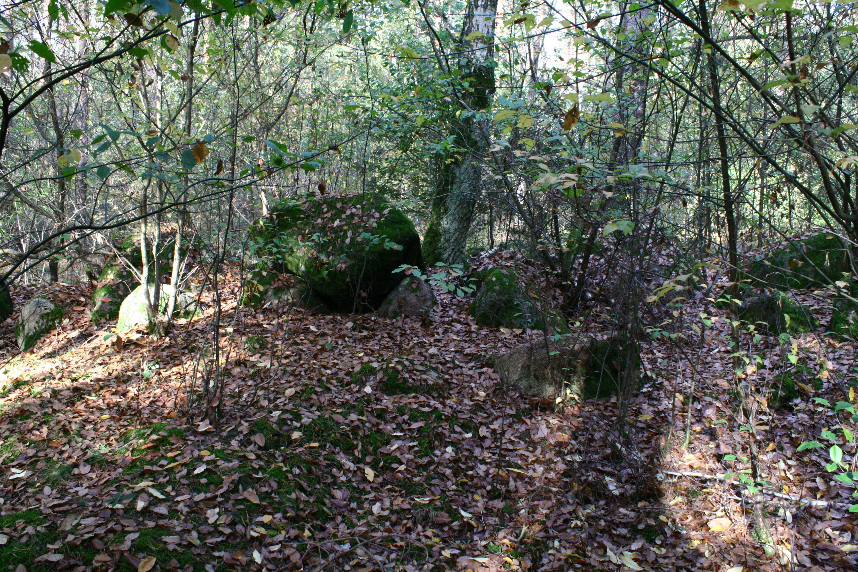 Megalithic tomb Haldensleben II 25